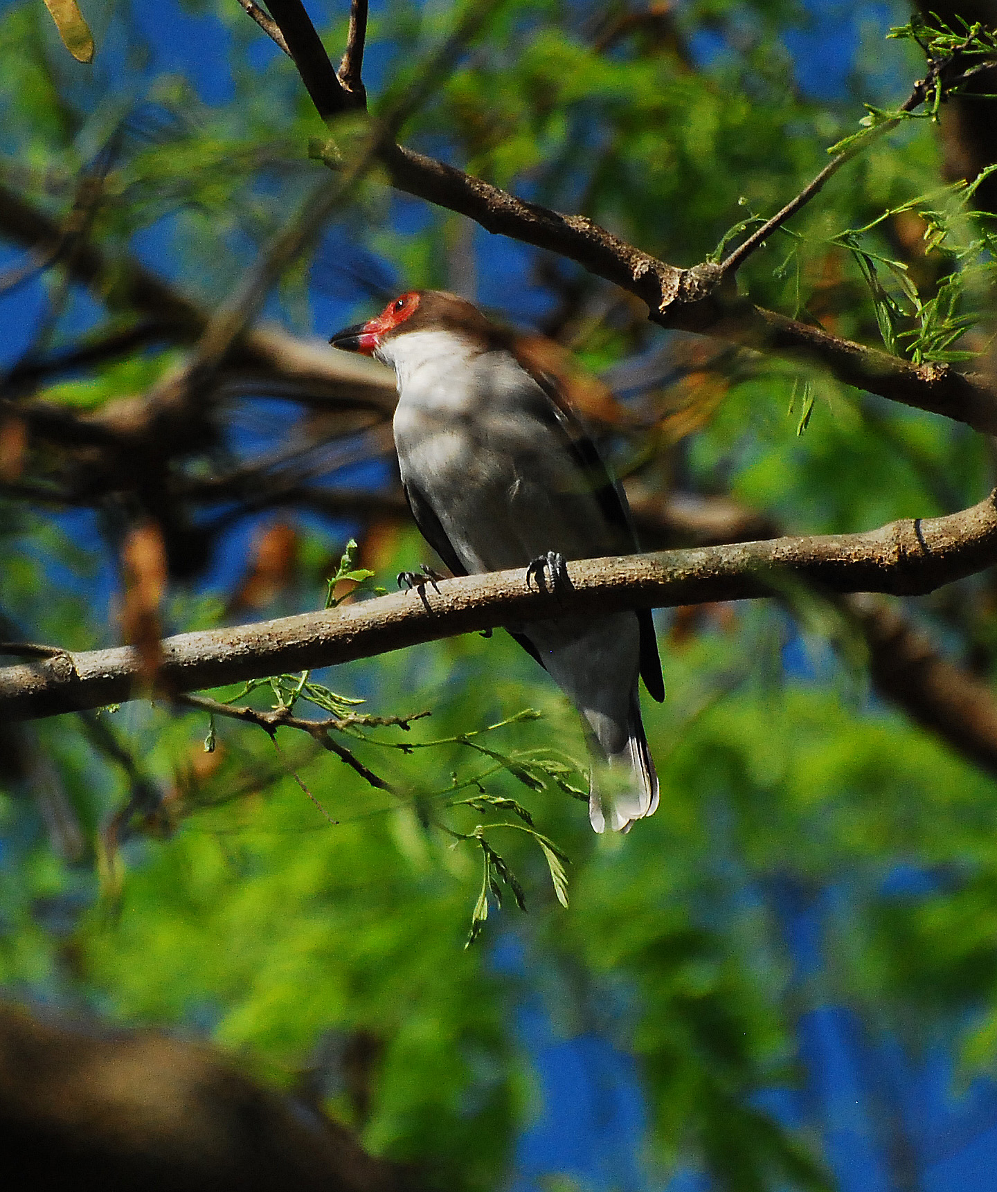 Masked Tityra at La Ensenada Ranch, Costa Rica, 080223. Tityra semifasciata.